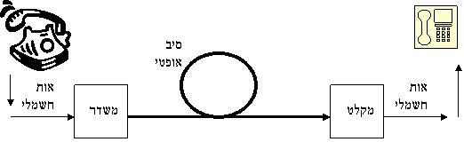 Optical communication system scheme